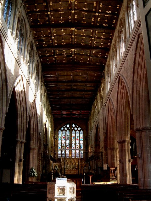 St. Editha's Church, Tamworth : The interior. A supplementary photograph of this fine old church. It is most likely that after his death at the Battle of Bosworth Field, the body of Richard III was dumped in the river at Leicester. However there are some that believe that an unidentified tomb here at Tamworth is his last resting place. There's a virtual tour of the church available here